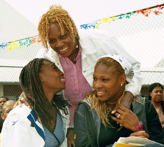 From Charity Tennis event Wash. D.C. S.E. April 21, 2001 Copyright John Mathew Smith 2001